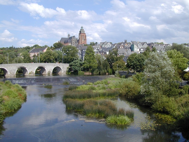 Wetzlar, Lahnbrücke